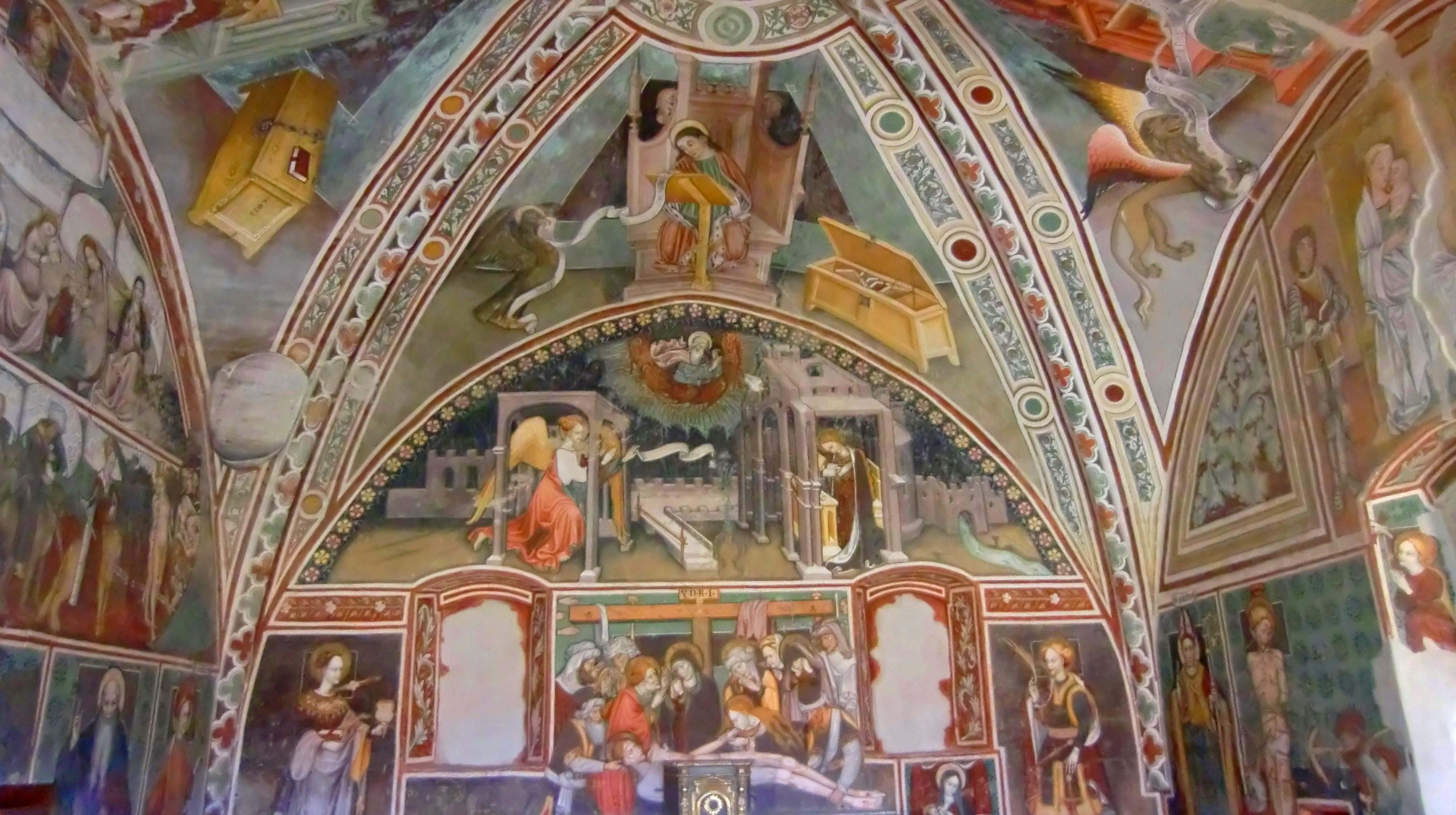 Frescoes of the "Cappella di Missione", XV century, Villafranca Piemonte (Italy)